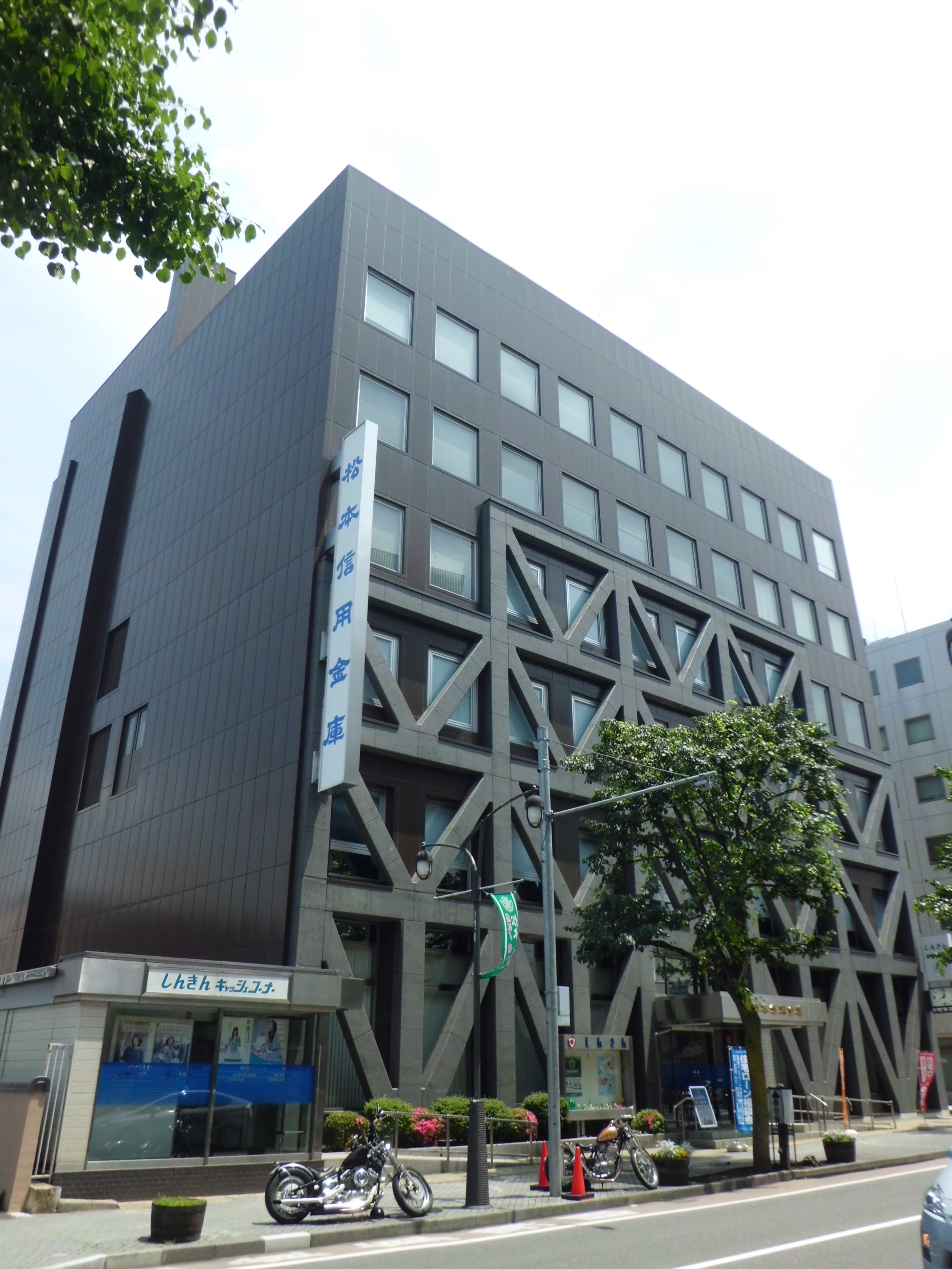 Head office of Matsumoto Shinkin Bank in Matsumoto city, Nagano prefecture, Japan.